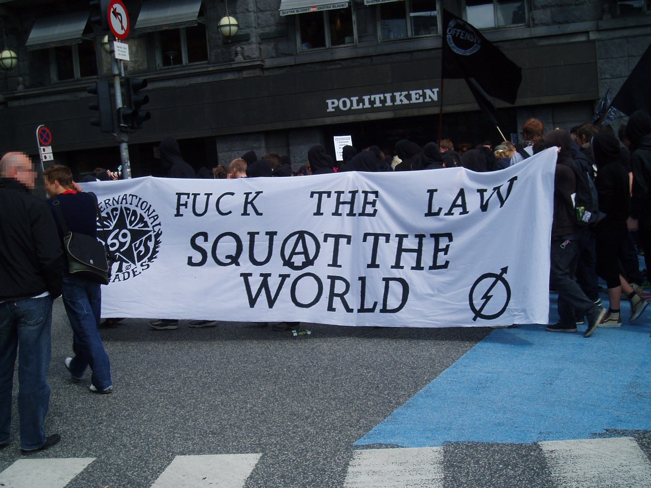 Squatters in Copenhagen demonstrating for more squatting: "Fuck the law squat the world"